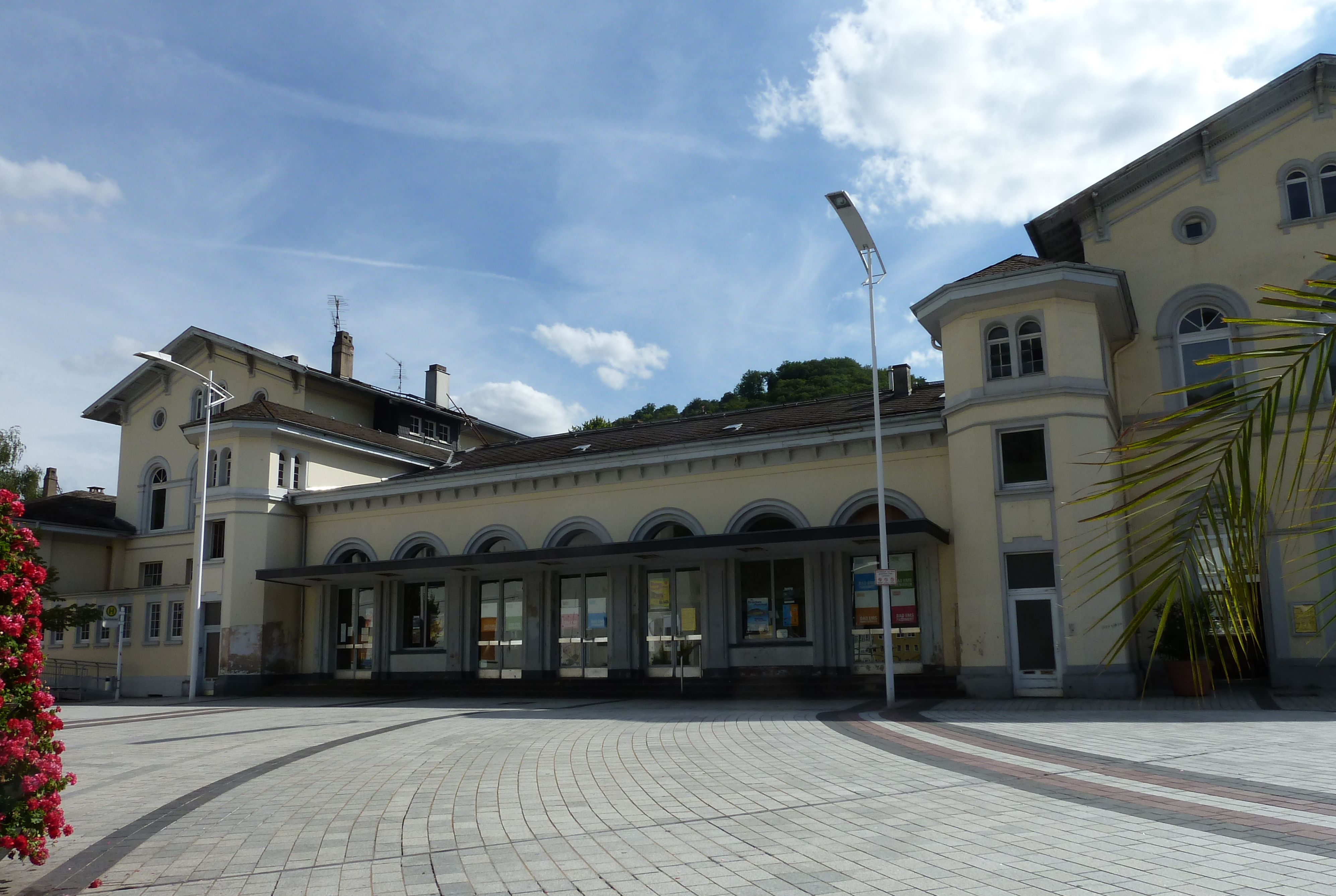 Bad Ems, main station. 19th c. building